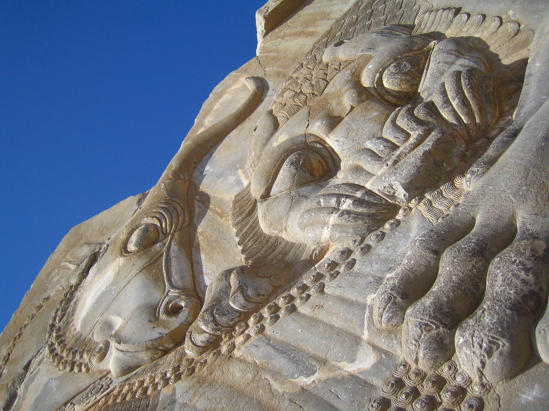 Stone Relief at Persepolis, Iran